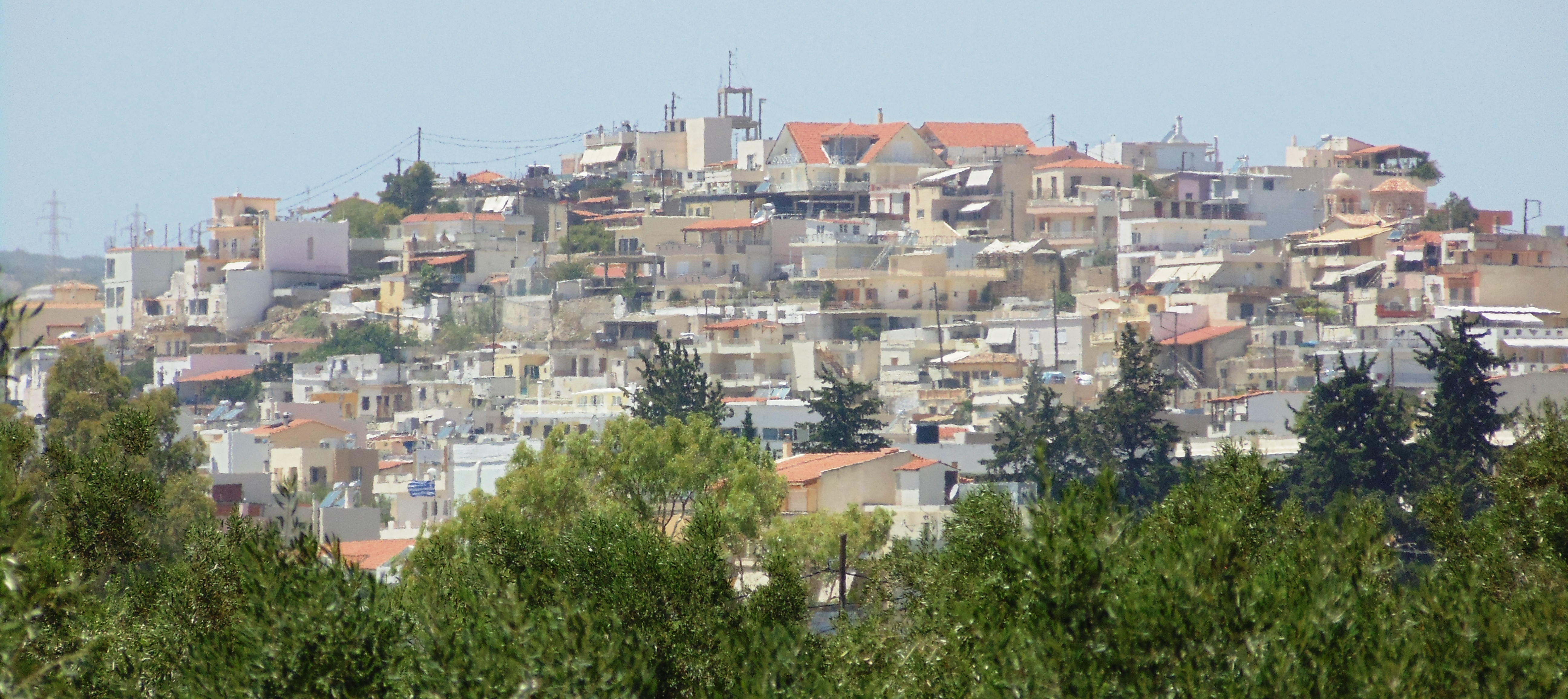 Alkathous Hill